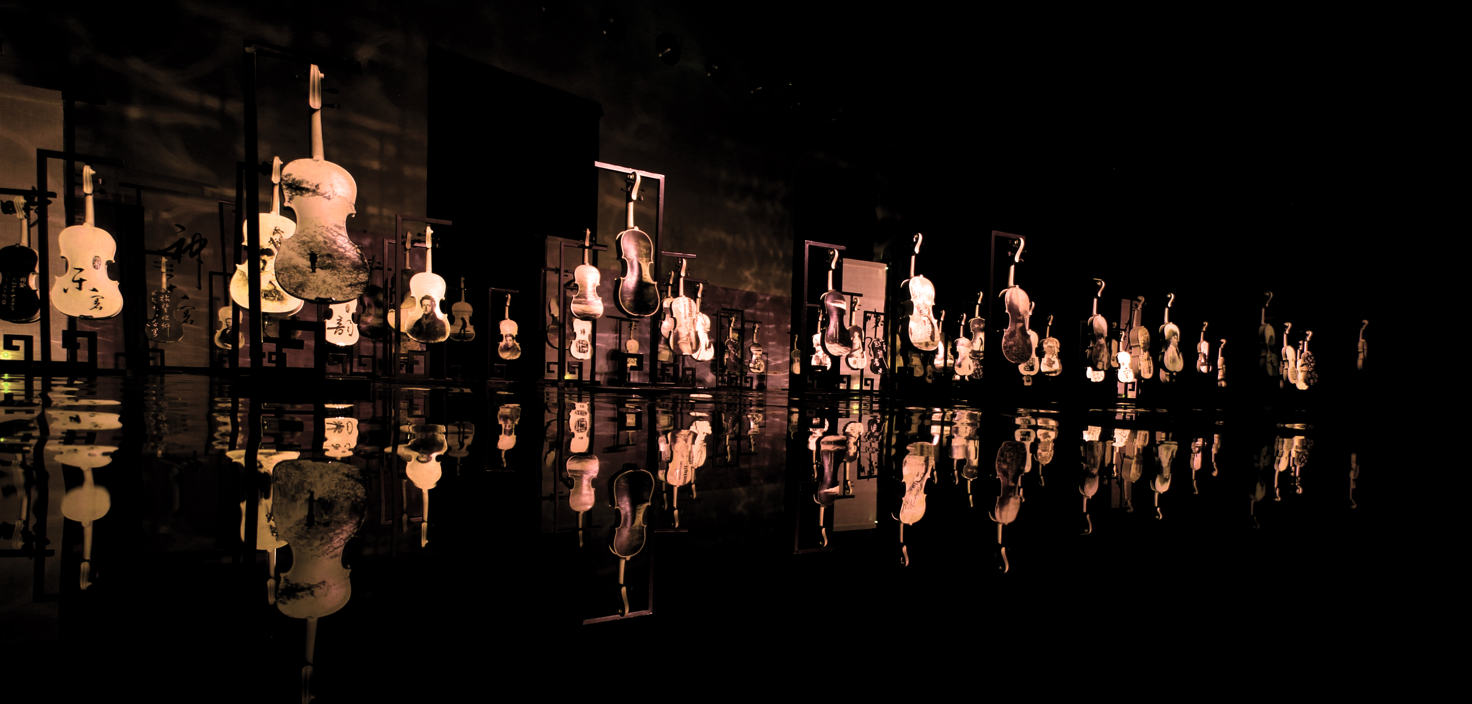 Contemporary Art Museum Rome Credit photo Laurenzo